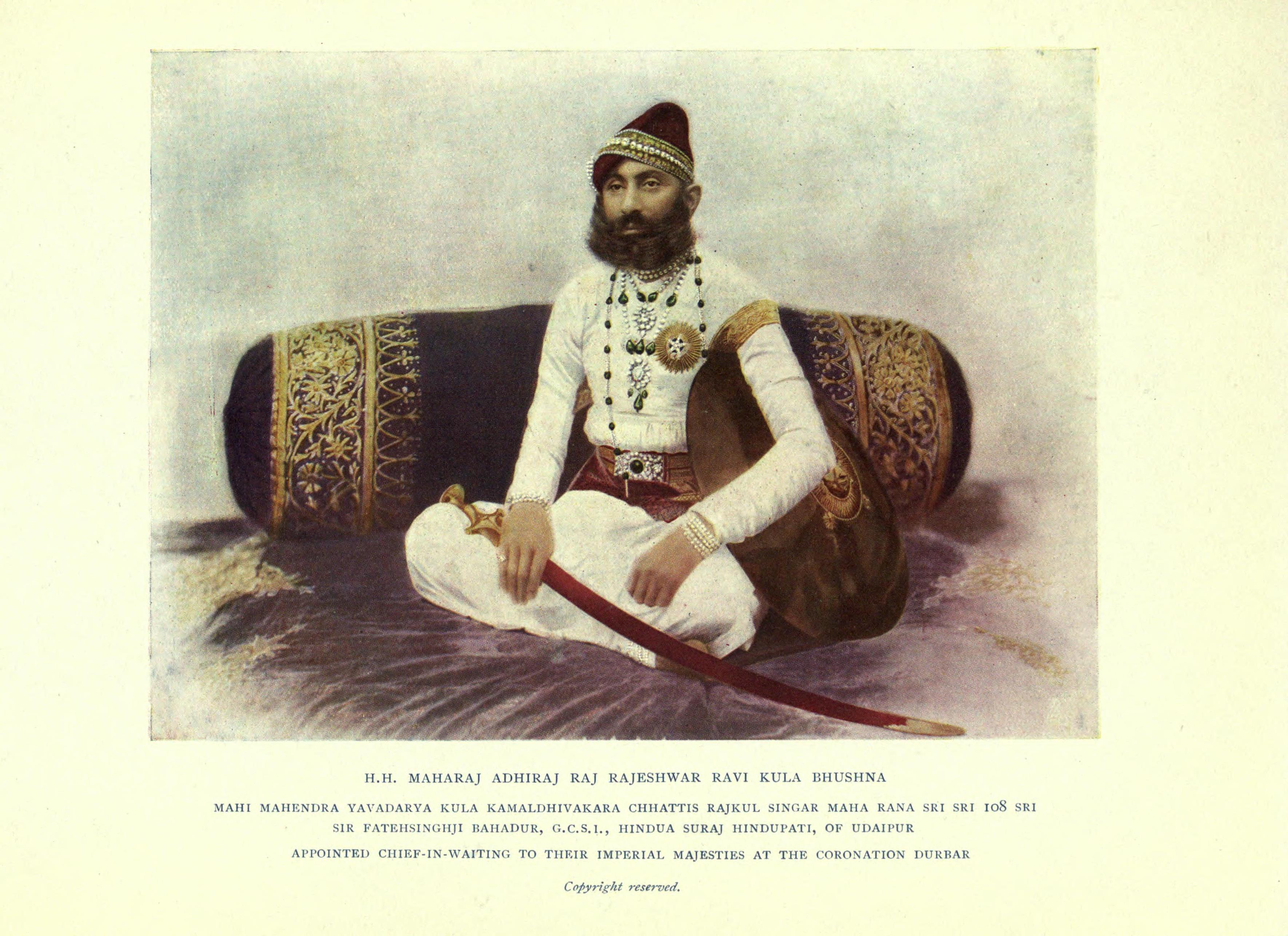 The Rajputs: a fighting race; a short account of the Rajput race, its warlike past, its early connections with Great Britain, and its gallant services at the present moment at the front (1915) Author: Jessrajsingh Seesodia Subject: Rajput (Indic people) Publisher: London, East and West, ltd. Possible copyright status: NOT_IN_COPYRIGHT Language: English Call number: nrlf_ucb:GLAD-50521797 Digitizing sponsor: MSN Book contributor: University of California Libraries Collection: cdl; americana Full catalog record: MARCXML [Open Library icon]This book has an editable web page on Open Library.